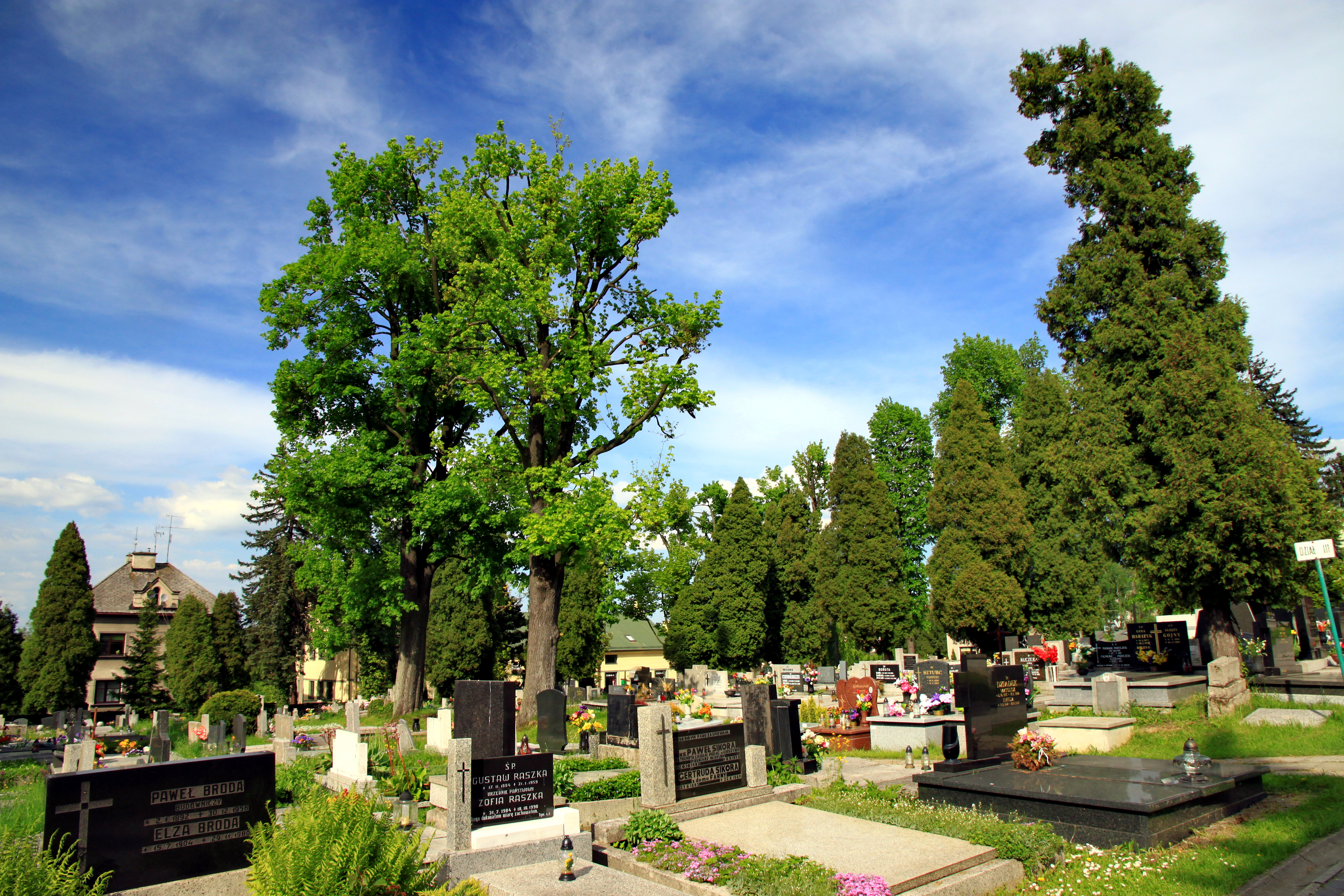 Cieszyn, lutheran cemetery, 19th century